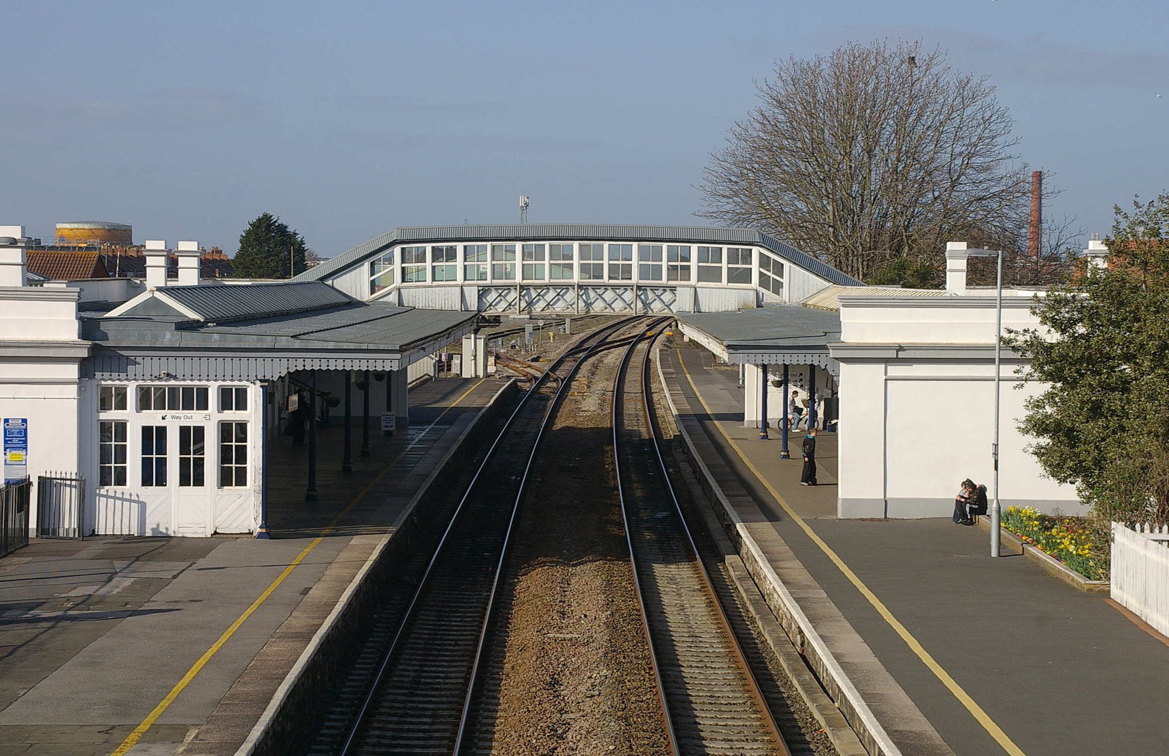 Bridgwater railway station viewed from the southern footbridge.